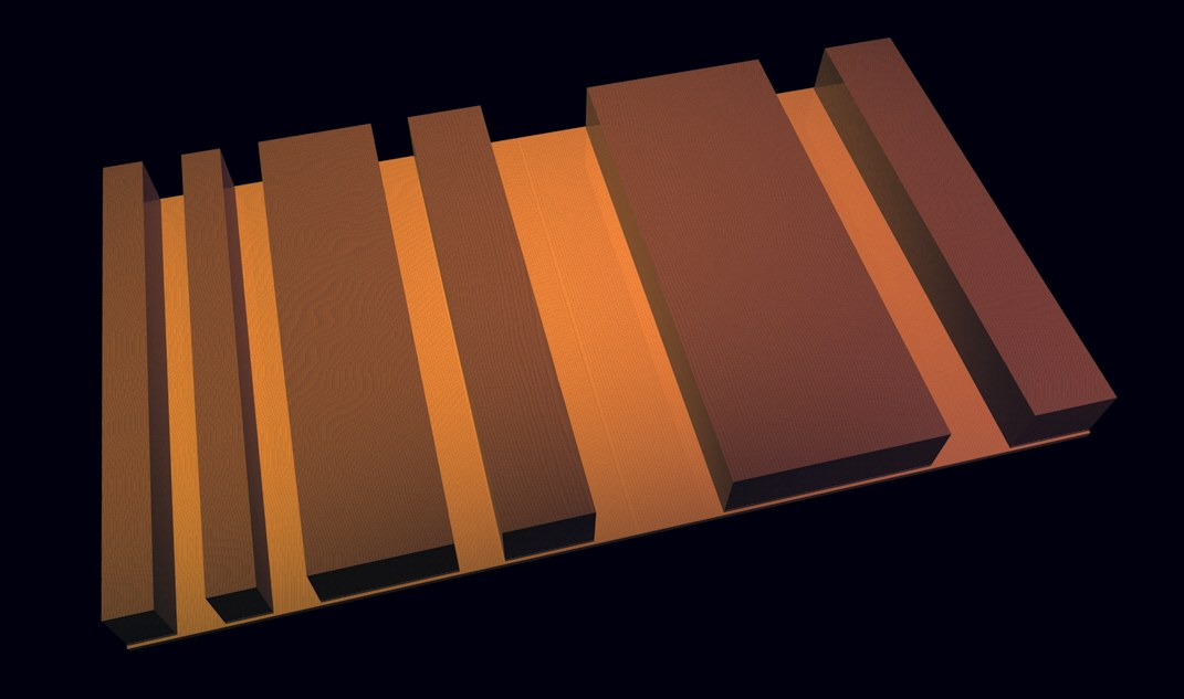 Diffuser with wells according to Maximum Length Sequence Design Methodology